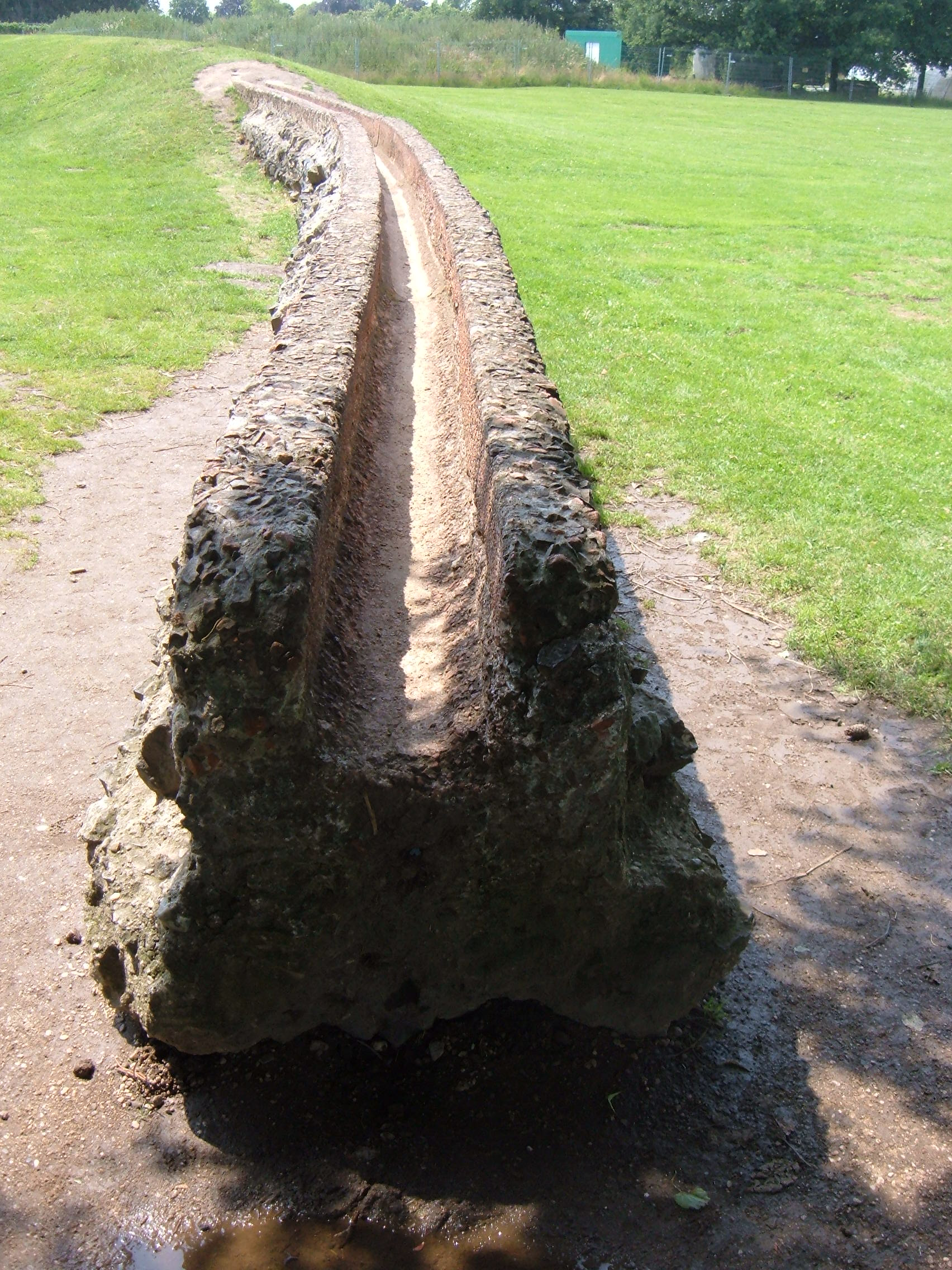 Aquaduct of Colonia Ulpia Traiana, Archeologisches Park Xanten.